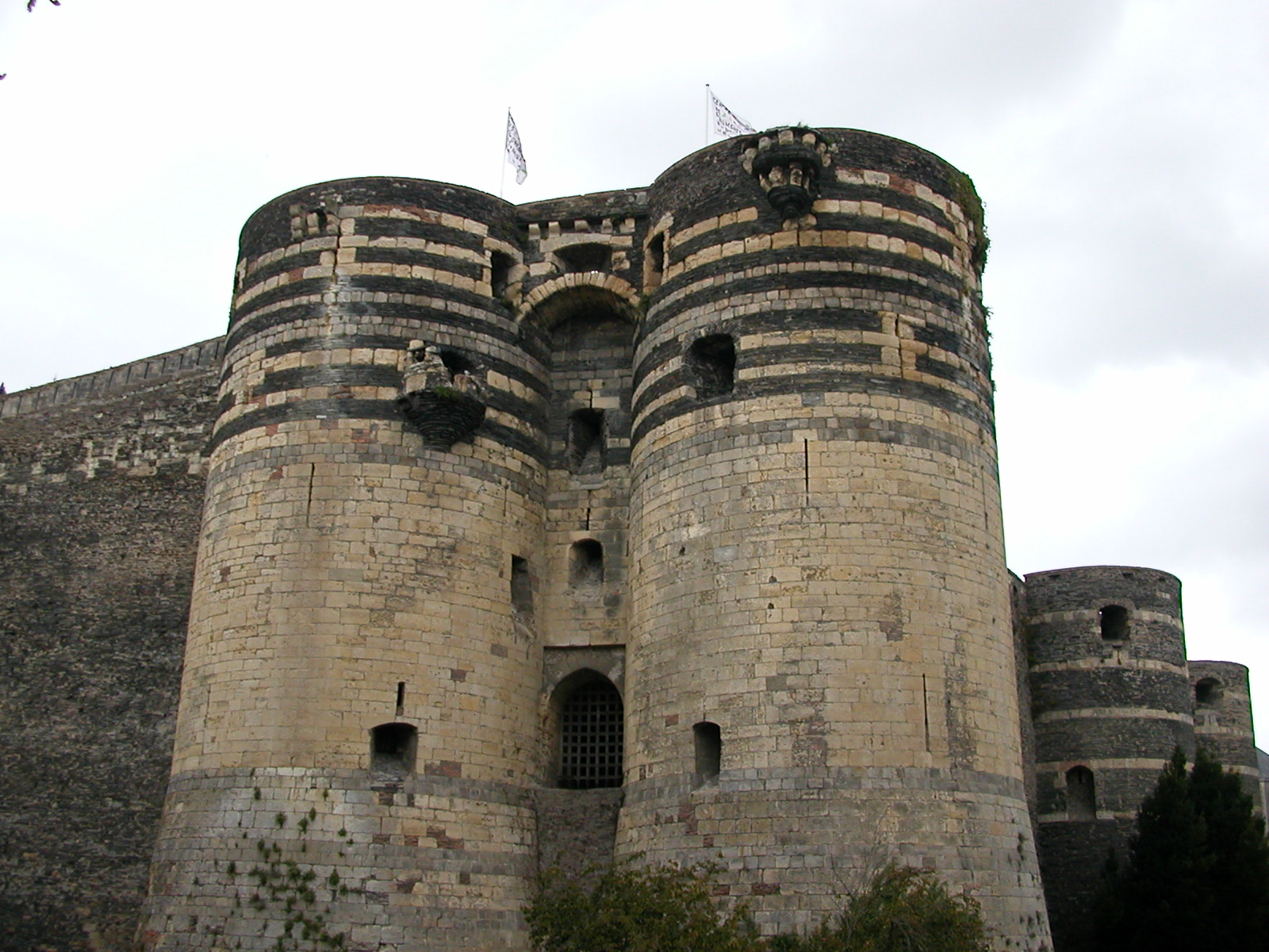 Southern wall of the Château d'Angers.